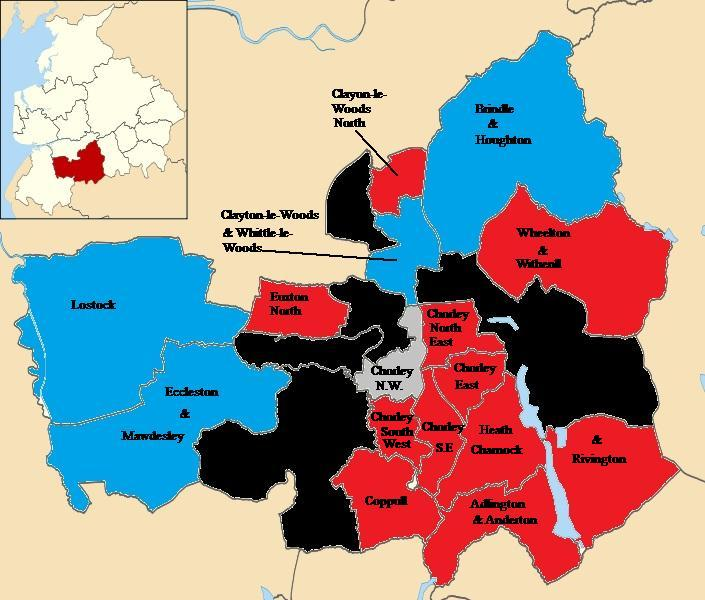 Chorley 2012